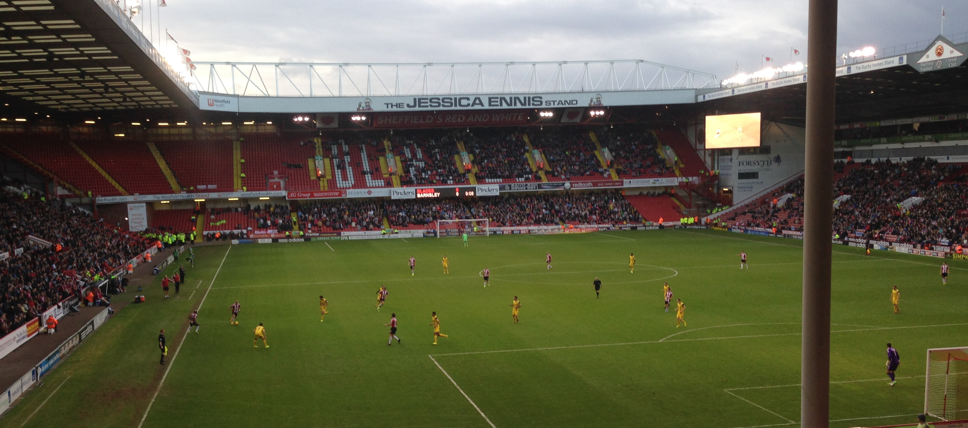 Sheffield United F.C. V Barnsley F.C. on 1 November 2014 at Bramall Lane.